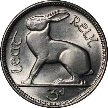 Barnyard Set Coin, 3d, Hare.